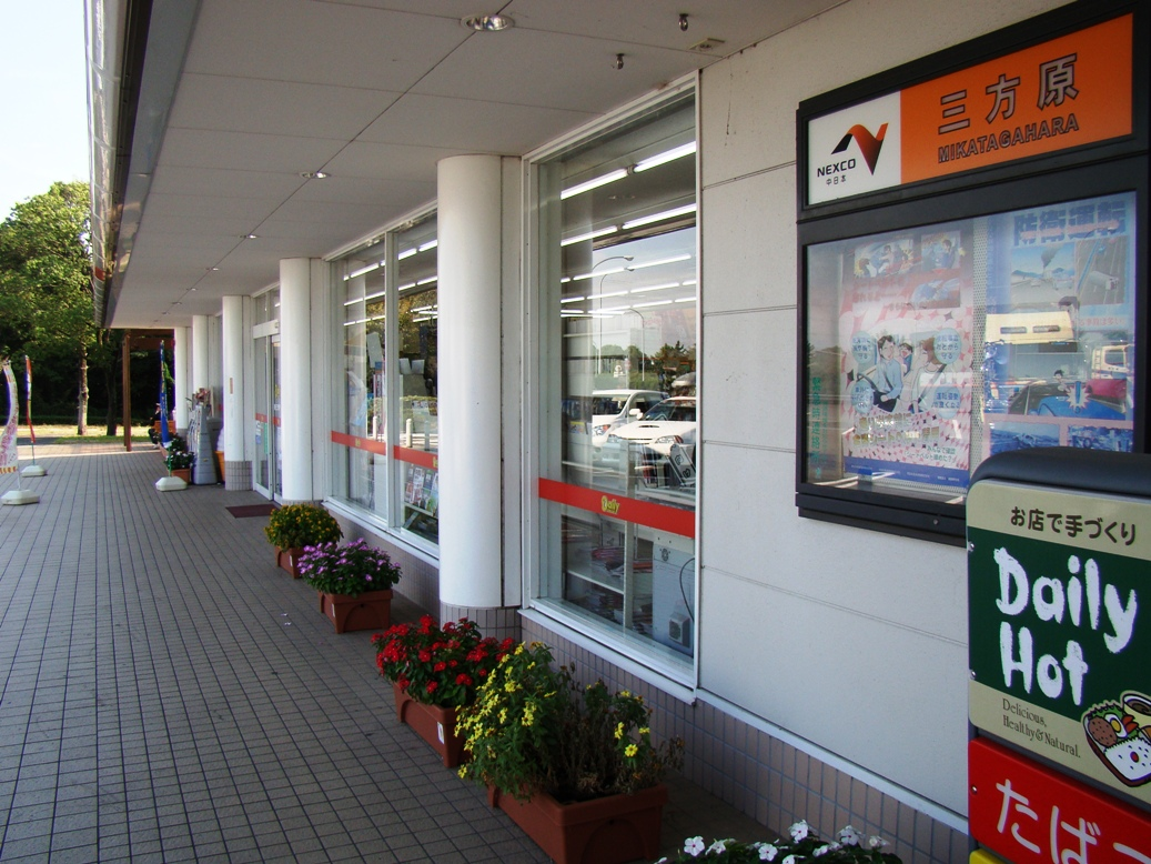 Mikatagahara Parking Area on the Tomei Expressway westbound line in Hamamatsu City, Shizuoka Prefecture, Japan